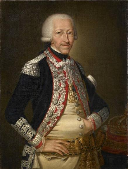 Victor Amadeus III, king of Sardinia (1726-1796)